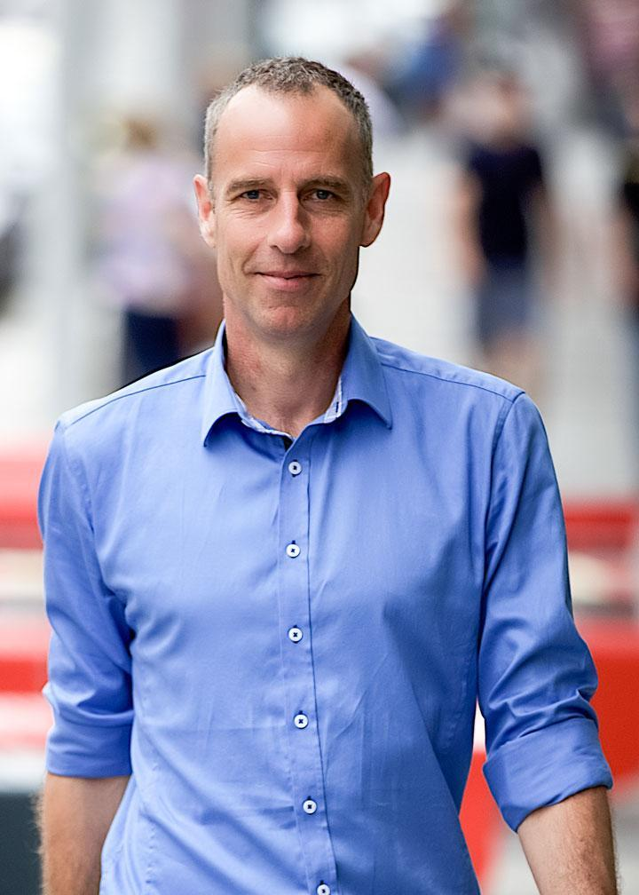 Portrait of Nick McKim, Australian Greens Senator for Tasmania